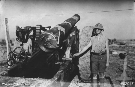 AWM Caption: Western Front: Western Front (Belgium), Ypres Area Ypres. A camouflaged 8 inch No. 2 gun of the 1st Australian Siege Battery, at Birr Cross Roads. 518 Gunner Harold Alexander Triggs (later killed in action on 5 July 1918, near Lamotte in Nieppe Forest) is standing by, awaiting the order to fire, during the ranging of the battery on 26 September 1917, prior to the attack carried out on Polygon Wood on 28 September 1917. The dial sight has been removed in order to save damage on shock of discharge. This is an original Paget Plate negative. The same image is available in colour and is held at P03631.169. A similar image is held at E02048A.